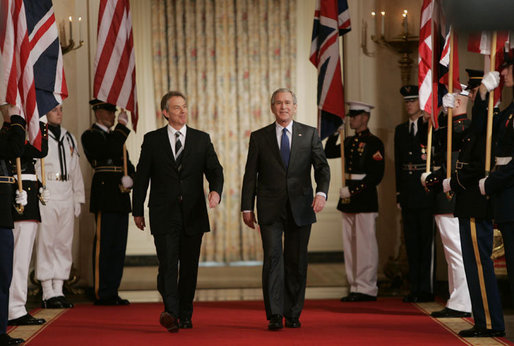 Tony Blair and George W. Bush meet in the White House on July 28, 2006.